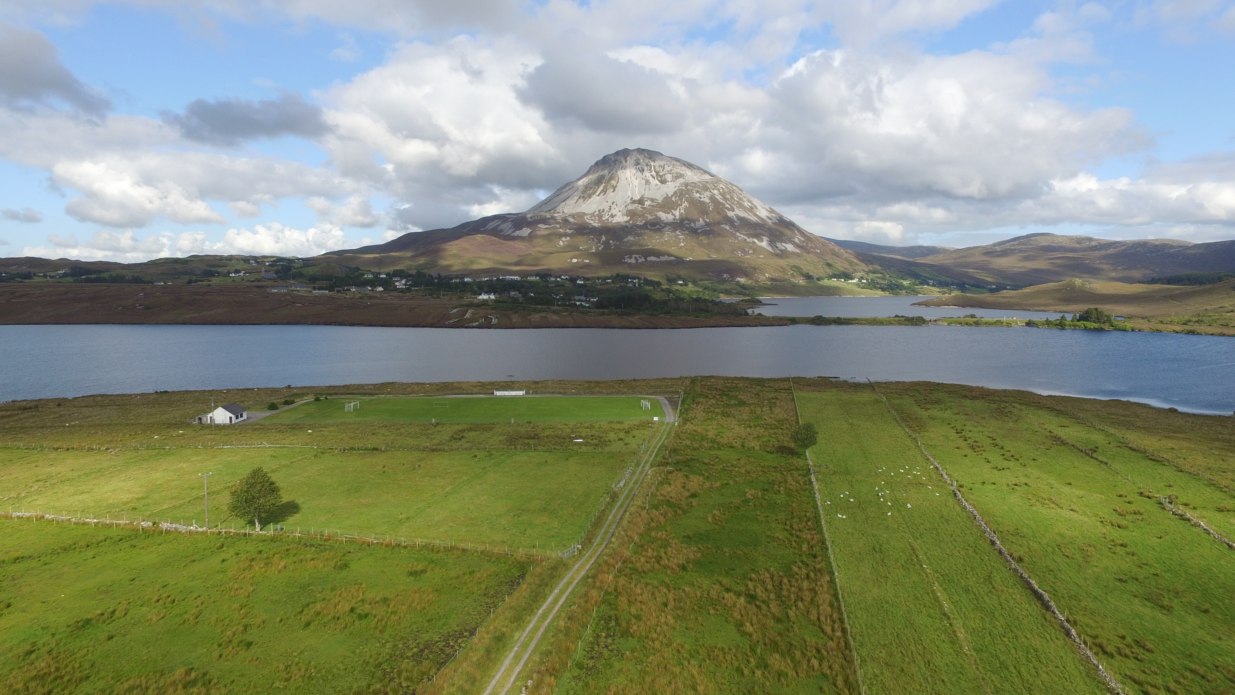 Drone shot of the beautiful mount errigal